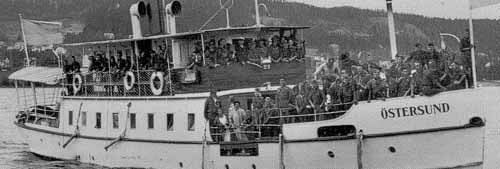 Gammalt foto på S/S Östersund This is an image of the protected Swedish ship S/S Östersund, with call sign SHNM .